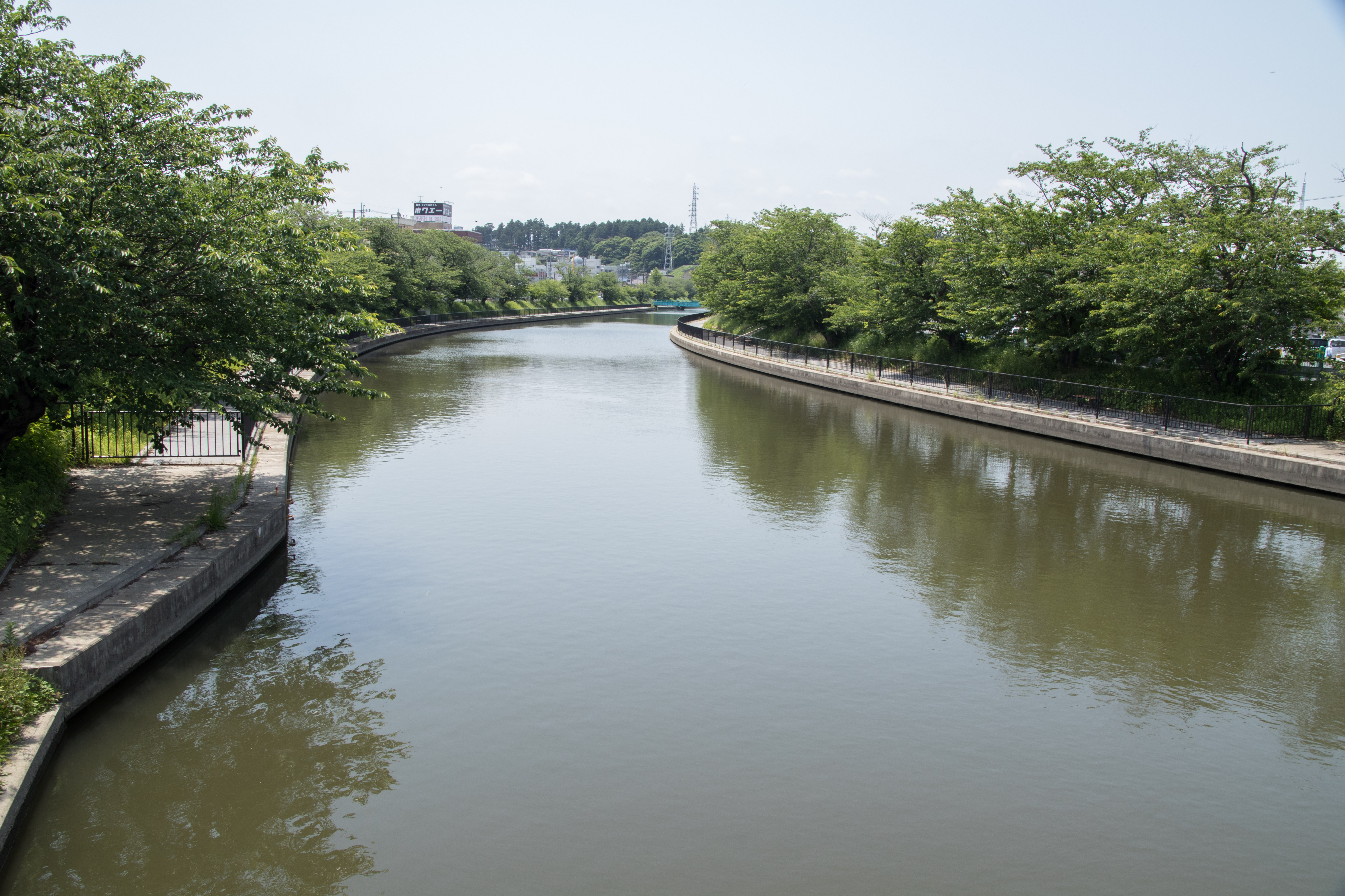 The primary conduit(Daiichi Dōsuiro 第一導水路) of Ryoso Aqueduct(Ryōsō Yōsui 両総用水), Katori City, Chiba Pref., Japan